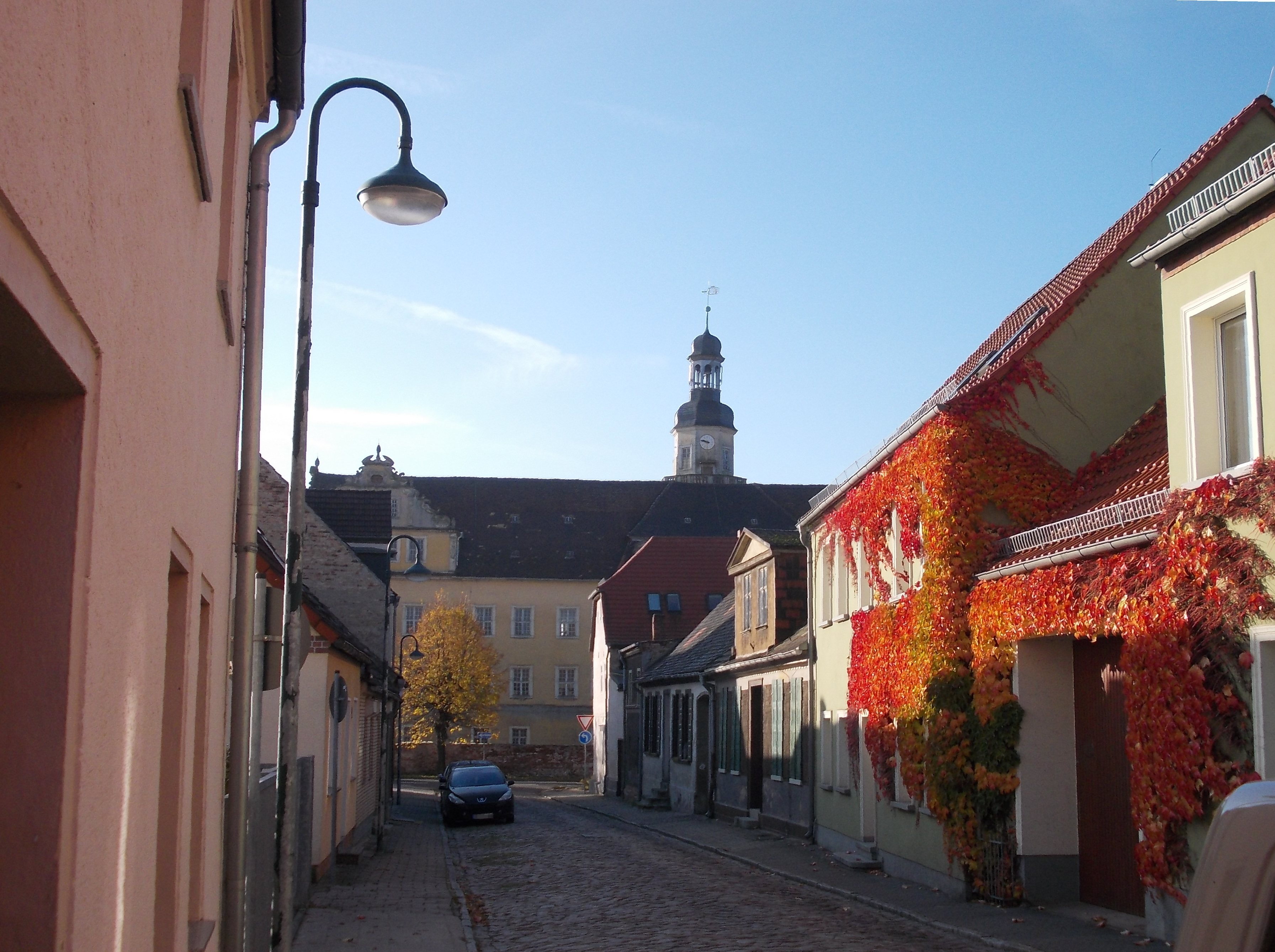 Domstrasse and Coswig Castle (Coswig/Anhalt, Wittenberg district, Saxony-Anhalt)